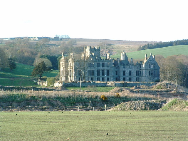 Ury House